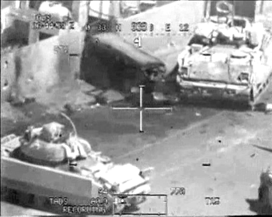 Frame 48551 at time 00:26:59.986 from the full wikileaks video of the Baghdad, the gun camera view only: borders and text cropped away.